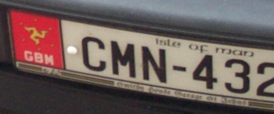 Manx car registration plate.